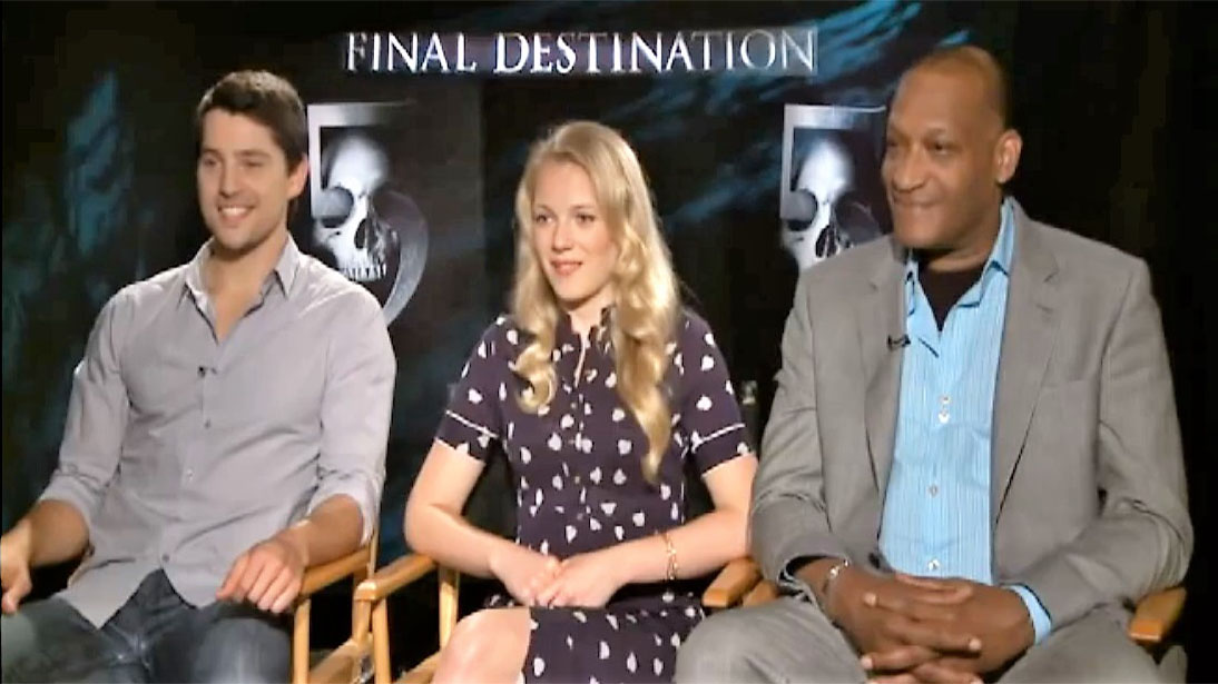 FinalDestination Junket EstrellasHoy American actors Nicholas D'Agosto, Emma Bell, Tony Todd interviewed by Dulce Osuna for their film Final Destination 5